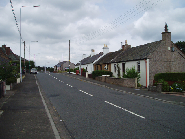 Collin, Dumfriesshire. The southern end of this village a few miles south east of Dumfries.